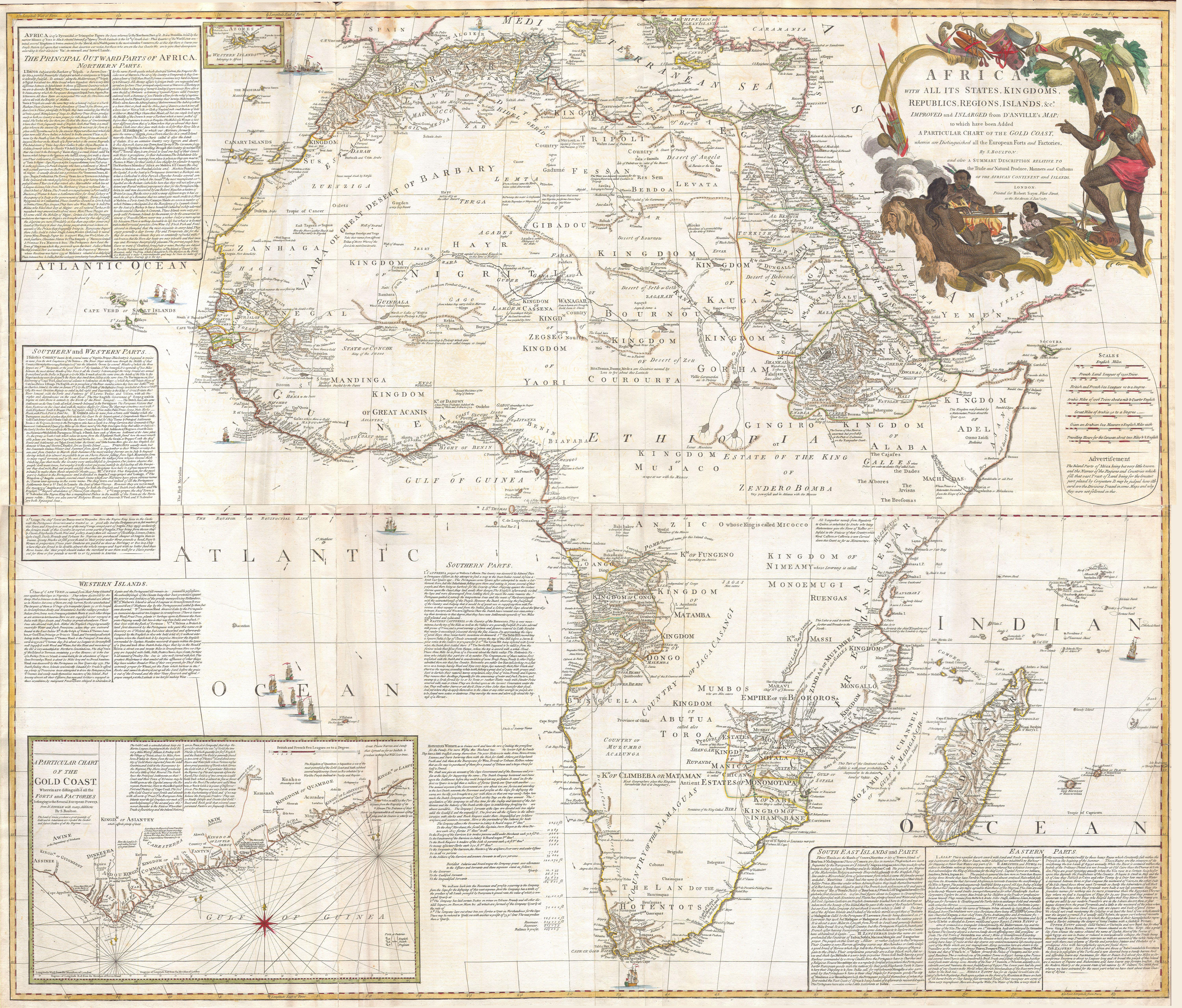 This is most likely the most important map of Africa produced in the 18th century. Printed at the height of the slave trade in 1787 by the Robert Sayer firm of London, England. Largely based upon the earlier D’Anville map, this map has been enlarged and expanded by Samuel Boulton. Depicts the continent in full with insets of the Gold Coast (or Ivory Coast, or Guinea). This map is unique in that it is a serious attempt to compile all of the accurate scientific knowledge of the African continent available at the time. In contrast to may other cartographers of the period there almost no attempt to fill the “unknown” regions of the interior with fictitious beasts, kingdoms, and geological features. Boulton himself advertises “The inland parts of Africa being but very little known and the names of the regions and countries which fill that vast tract of land being for the greatest part placed by conjecture it may be judged how absurd are the divisions traced in some maps and why they are not followed in this. Despite this, this map actually does provide a wealth of information both in the form of a gazetteer printed in framed text boxes here and there on the map, as well as political and geographical features. An altogether extraordinary map and a must have for any serious Africa collection. Dated 6, January 1787.